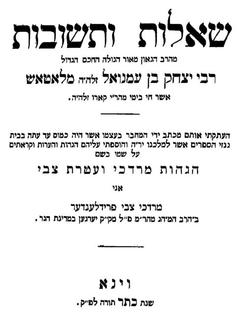 book cover of שאלות ותשובות